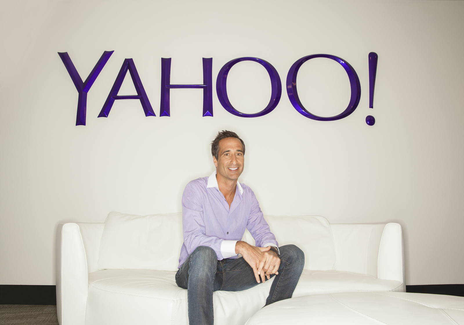 Adam Cahan of Yahoo